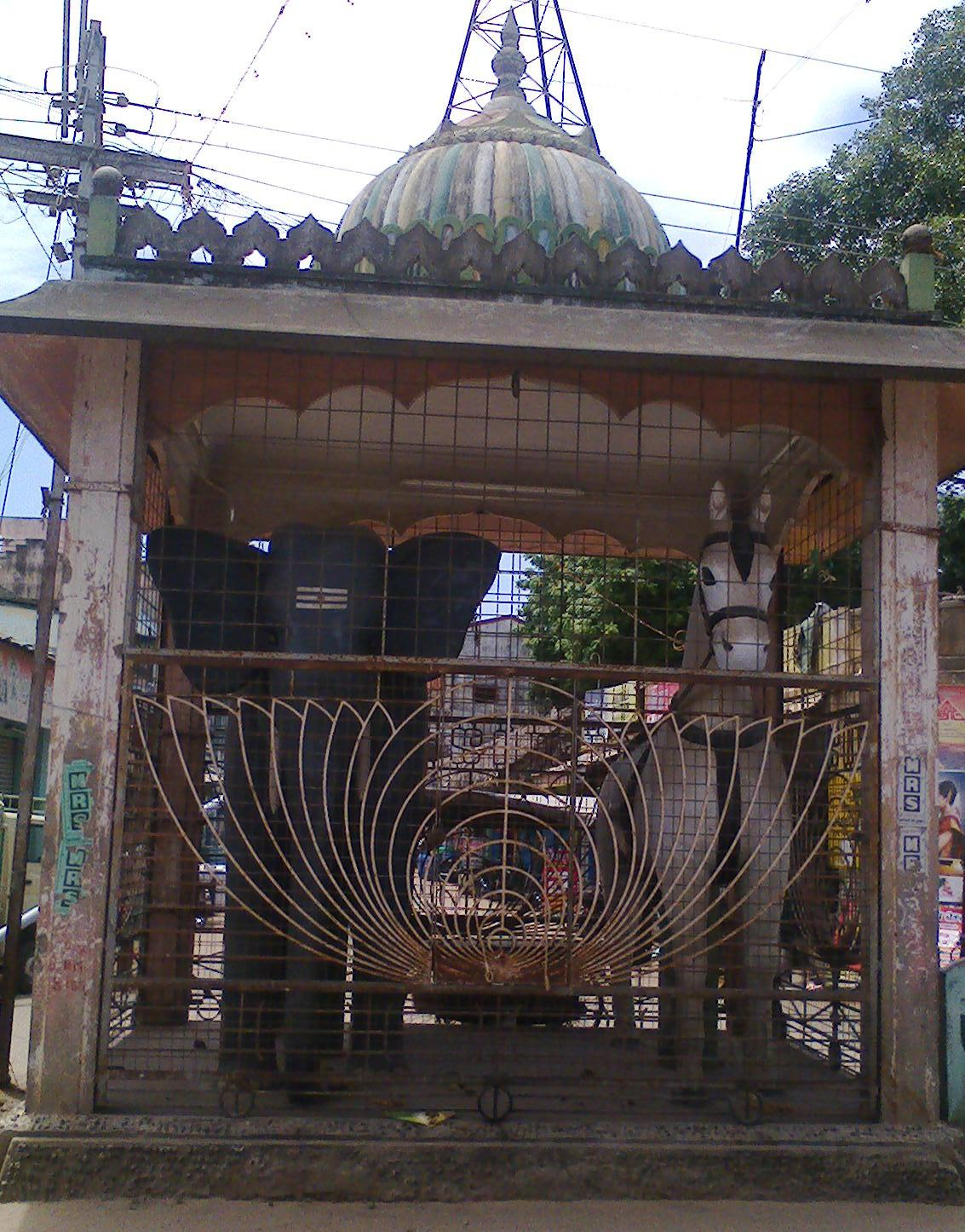 கும்பகோணம் யானையடி கோயிலின் முகப்பில் யானை குதிரை